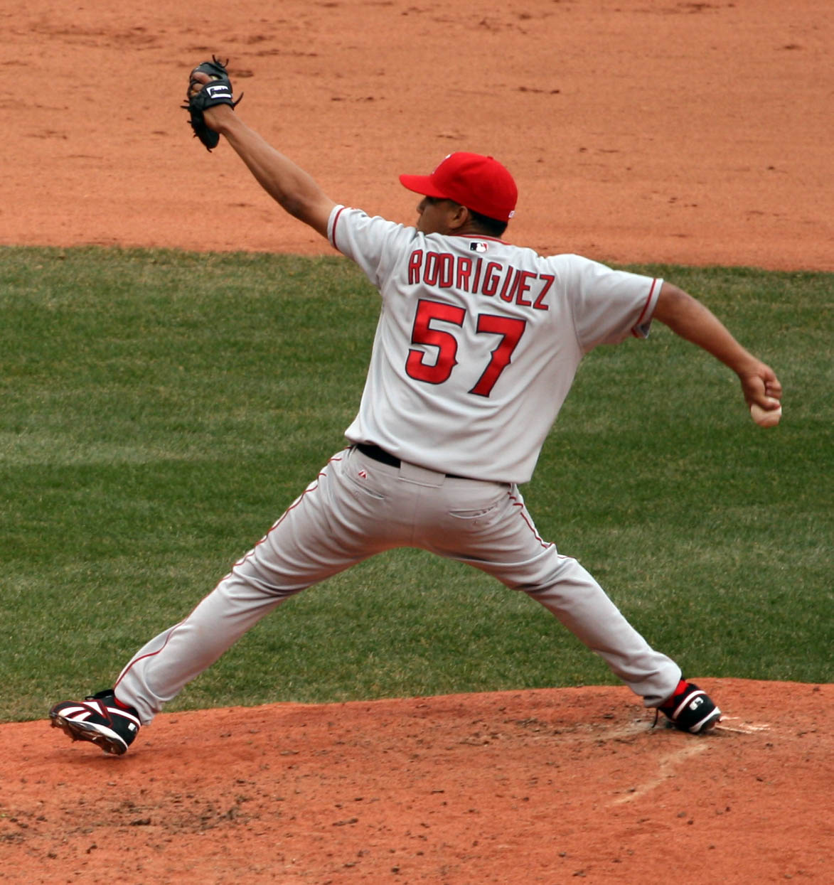 Francisco "K-Rod" Rodriguez pitching at Fenway Park, 4/16/2007 19:58, 17 April 2007 . . Toasterb . . 1173×1245 (239,314 bytes)